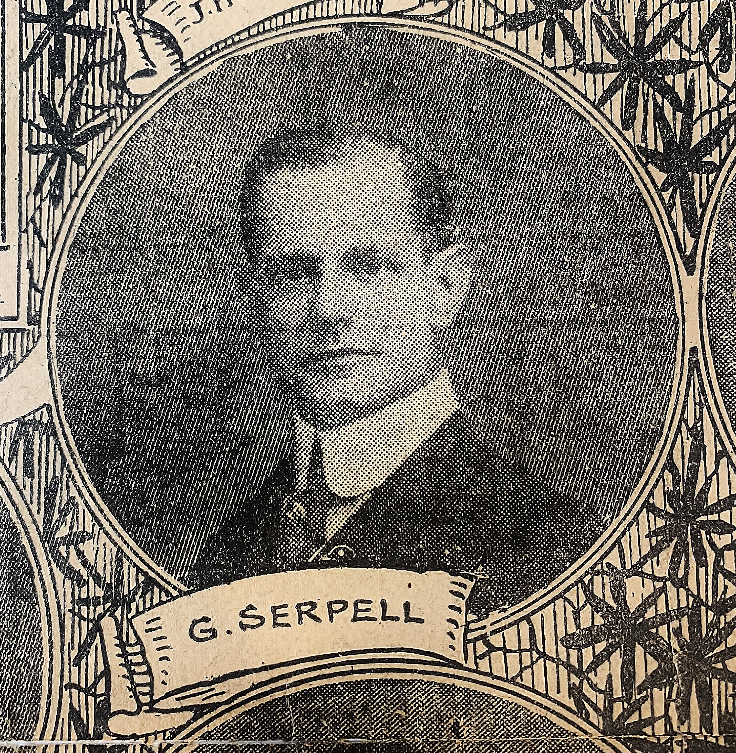 Goldsborough Serpell photo in a December 1916 issue of the Norfolk Herald. Husband of Susan Watkins